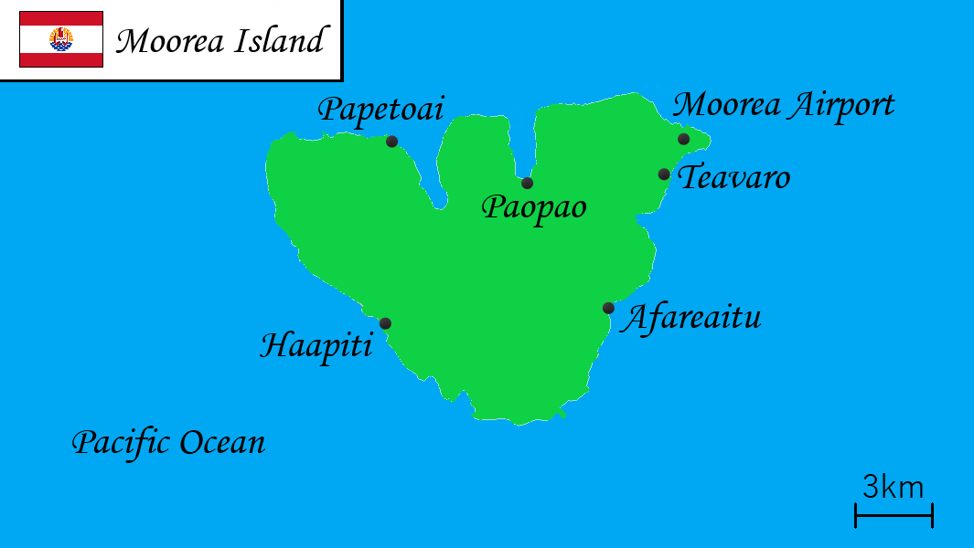 It represents a map of Moorea Island in French Polynesia